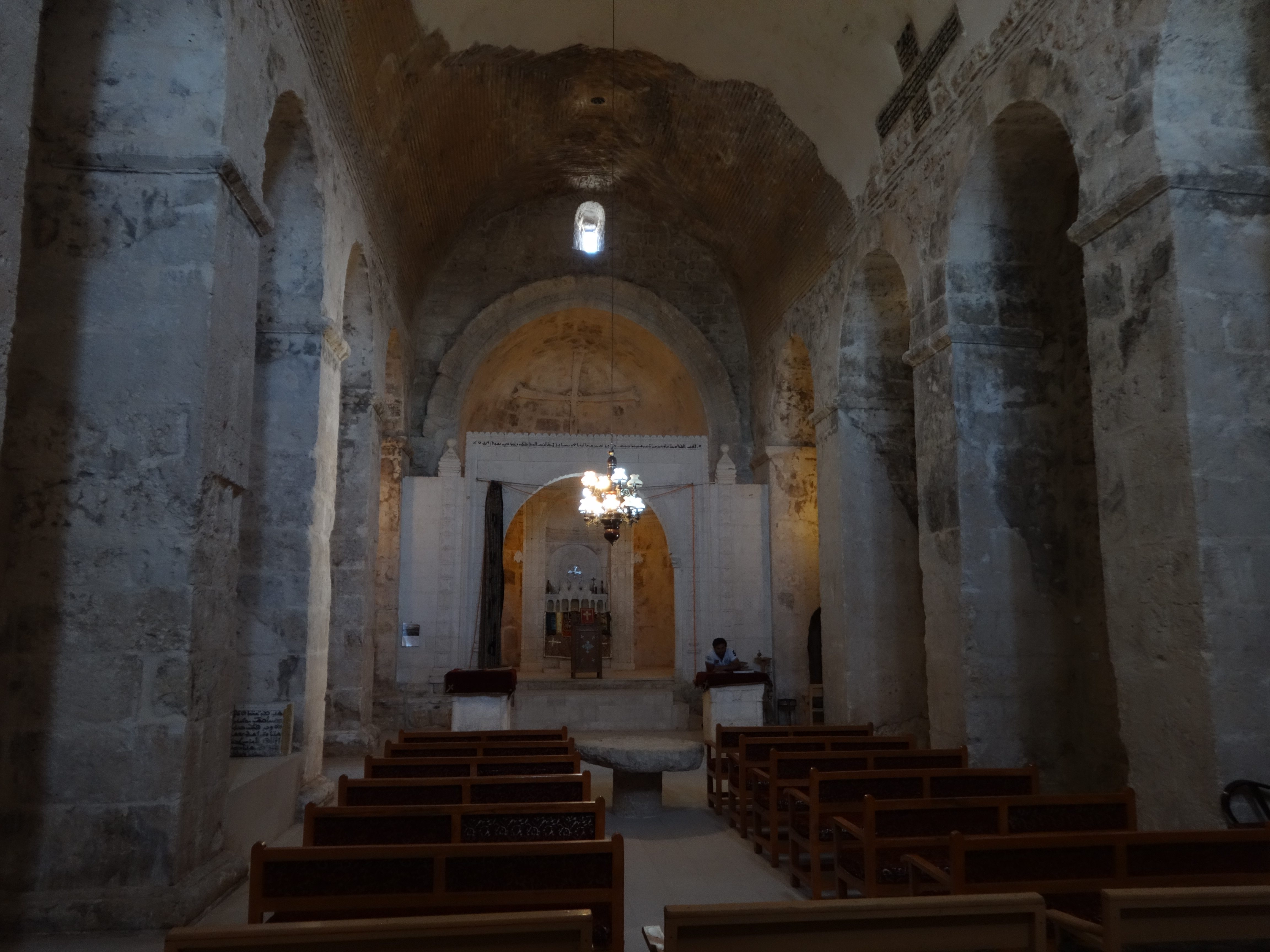 inside the main church in Keferze